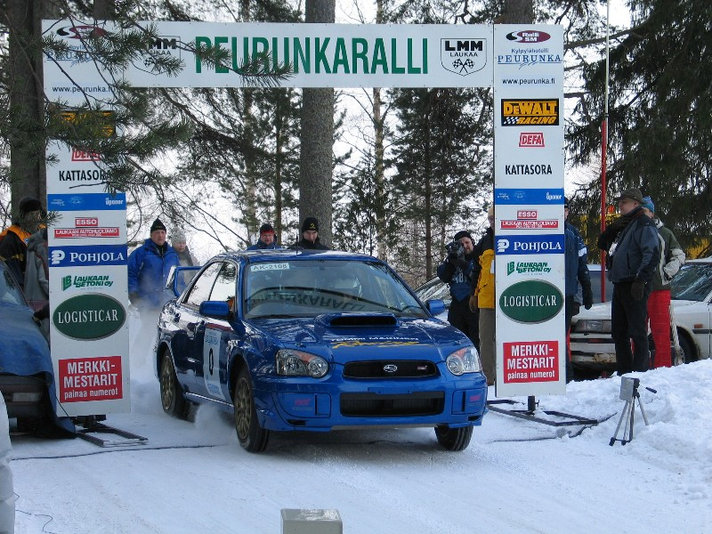 Mikko Hirvonen driving Tommi Mäkinen Racing's Subaru Impreza WRX STi as a zero car at the 2005 Peurunka Rally.